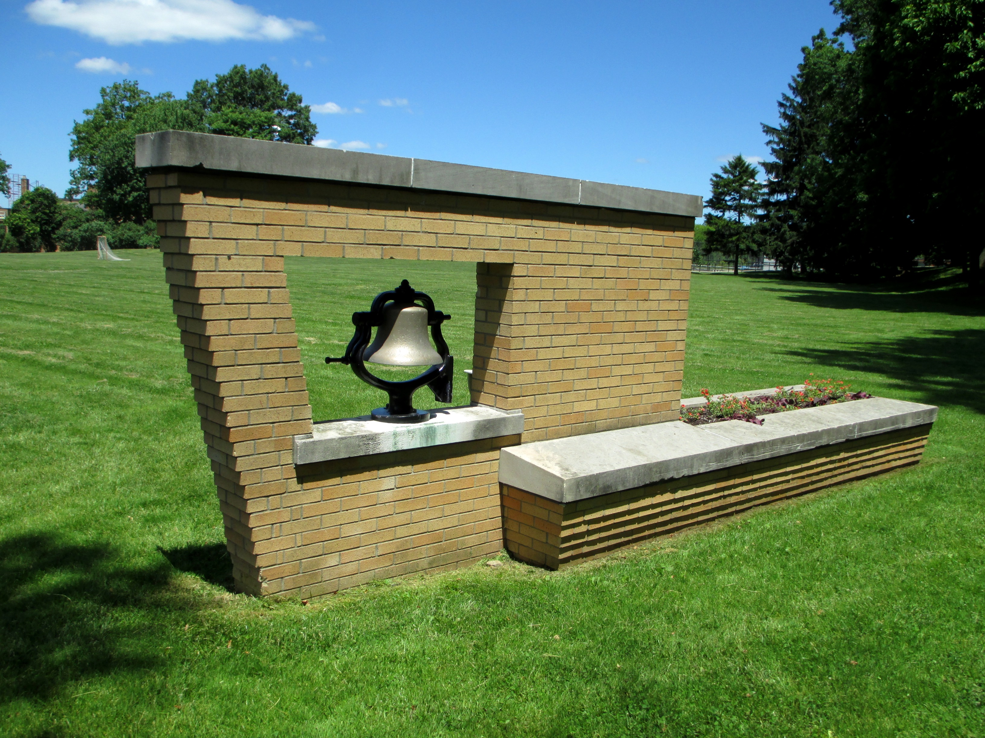 Victory Bell at Kent State University in Kent, Ohio, United States. The bell was first acquired by Alpha Phi Omega in 1950 from the Erie Raiload and the structure was built in 1952 behind the original Student Union adjacent to the Commons. Originally, it was rung to celebrate KSU athletic victories. It became associated with the Kent State shootings in 1970 as the bell was frequently used as a signal to begin political rallies and protests. As part of the annual May 4 commemorations, it is rung every May 4th at 12:24pm, the exact time of the shootings. The bell was added to the National Register of Historic Places in 2010 as part of the Kent State Shootings Site.